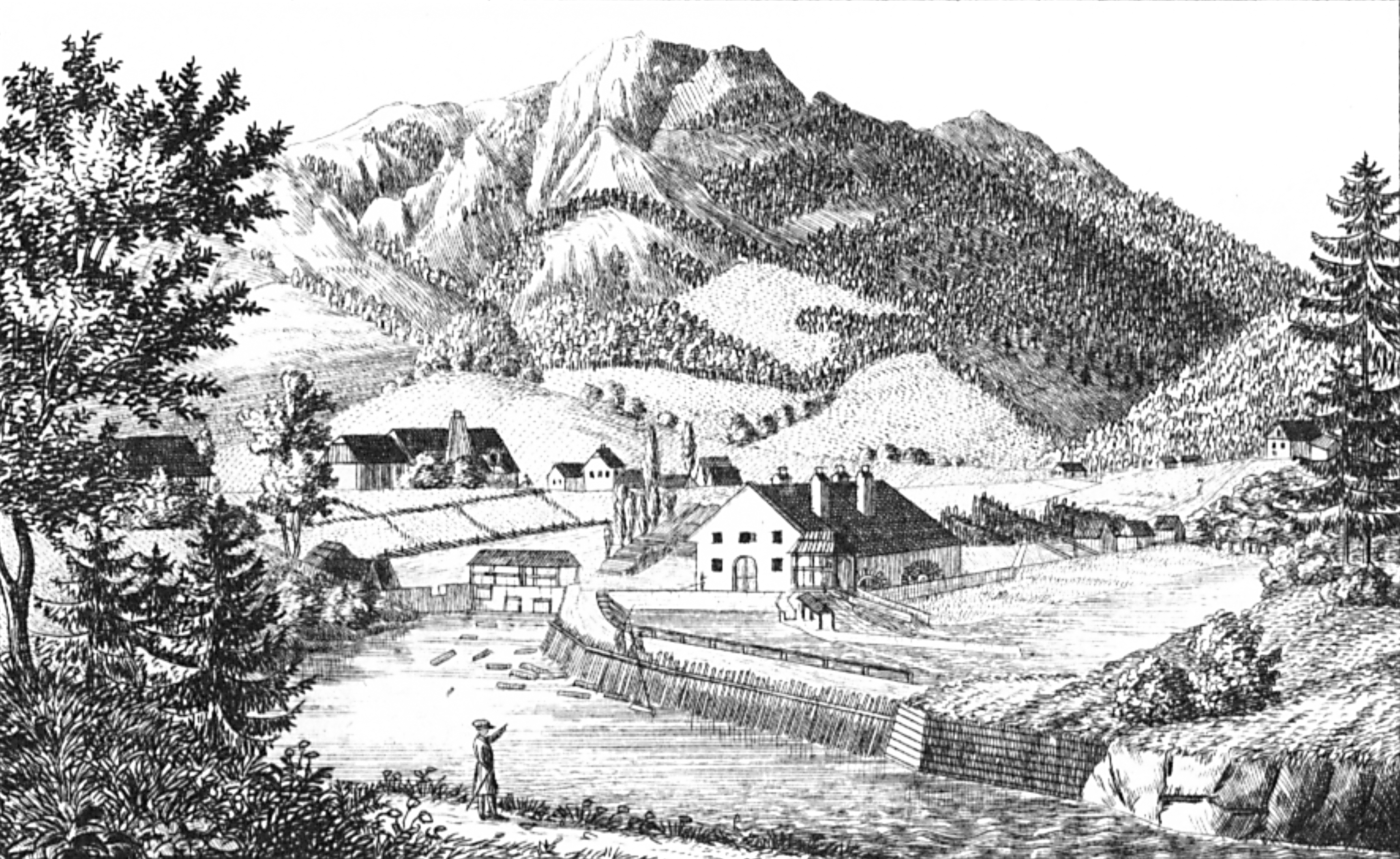 J. F. Kaiser - lithographirte Ansichten der Steyermärkischen Städte, Märkte und Schlösser, Graz 1824-1833 Joseph Franz Kaiser (1786–1859) Alternative names J. F. KaiserDescriptionAustrian printer and editorDate of birth/death 11 March 1786 19 September 1859Location of birth/death Graz (Styria) GrazAuthority control : Q1499963 VIAF: 30629353 ISNI: 0000 0000 3083 0153 LCCN: n87141671 GND: 129880159 NLP: A24960305 WorldCat creator QS:P170,Q1499963 . Scanprojekt Community Projektbudget 2012 This scan or this PDF-file was created within the GLAM-project Bookscanning, supported by Wikimedia Germany and Wikimedia Austria as a part of the community-project to capture books, documents and pictures which are not eligible to copyright or for which the copyright has expired. This document describes or depicts an object which is located in Austria today. Send requests for uncompressed scans to Hubertl. This work is in the public domain in its country of origin and other countries and areas where the copyright term is the author's life plus 100 years or less. You must also include a United States public domain tag to indicate why this work is in the public domain in the United States. This file has been identified as being free of known restrictions under copyright law, including all related and neighboring rights.